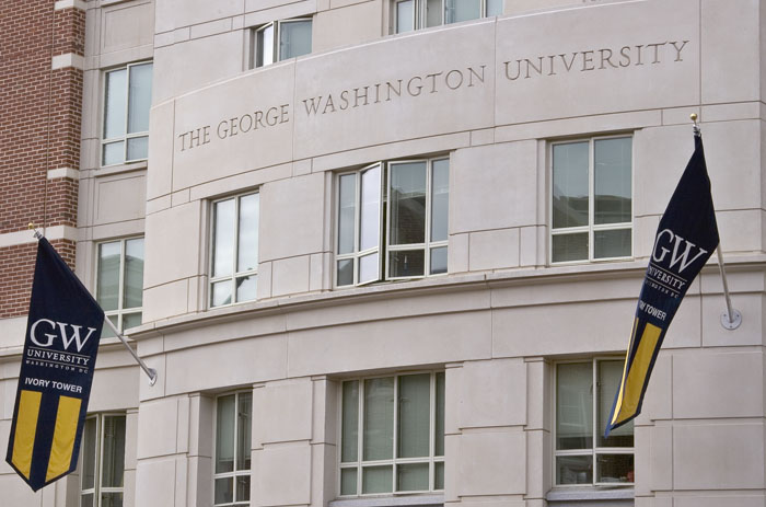 George Washington University